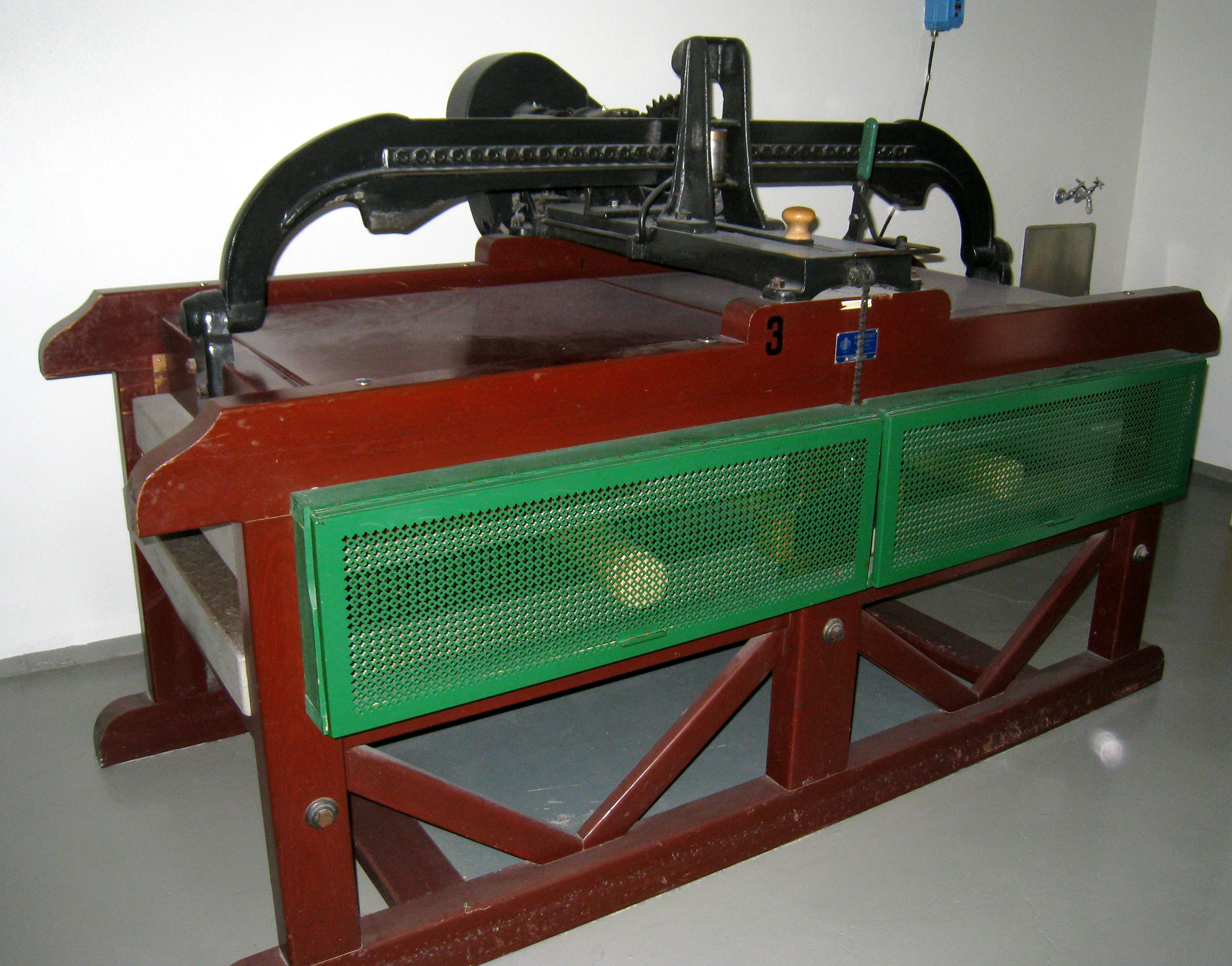 A large mangle is part of the laundry facilities in the basement of an apartment building in Sweden.